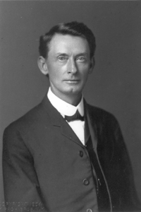 American politician, attorney, newspaper editor, and writer Thomas E. Watson (1856–1922)